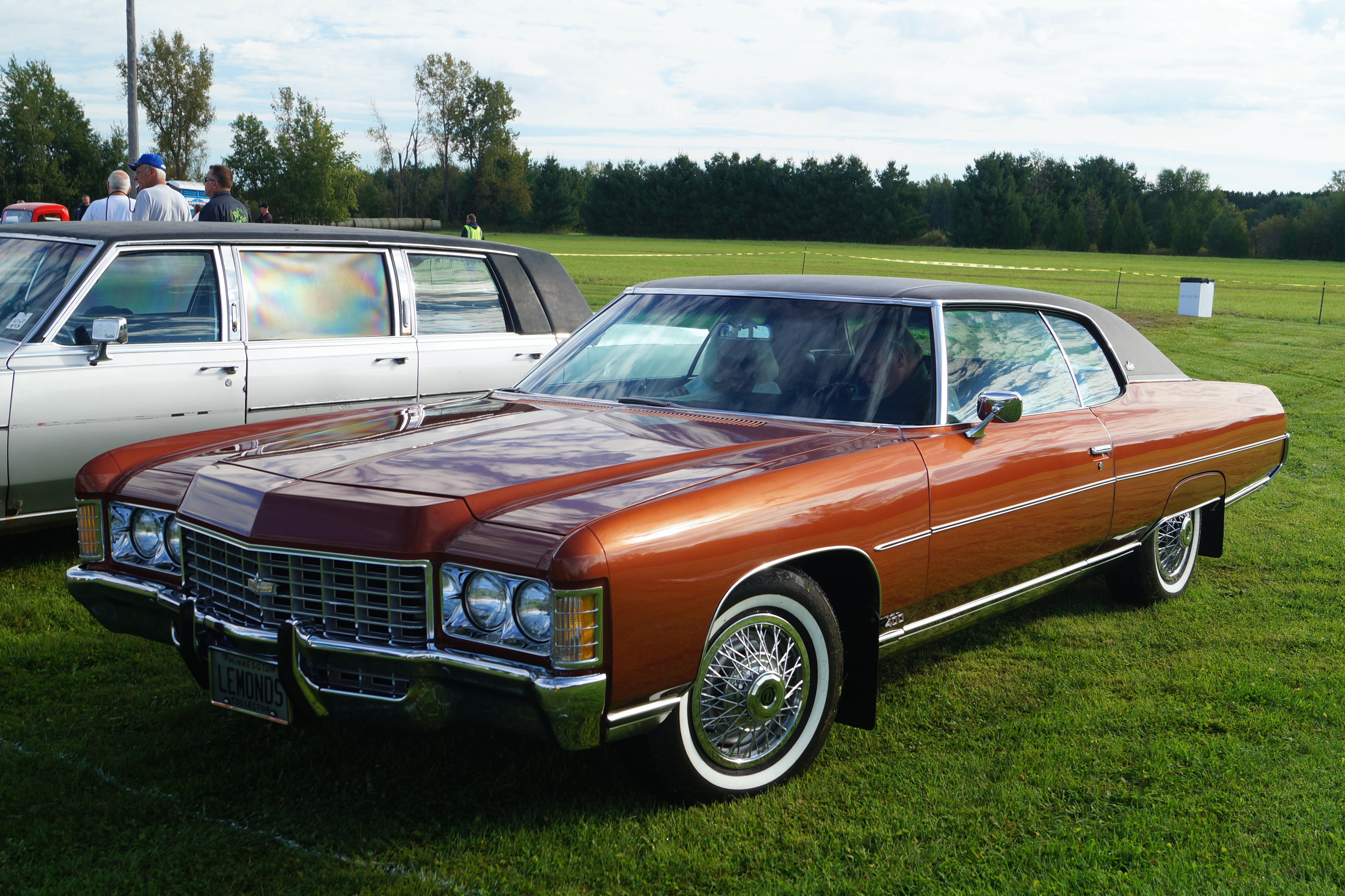 28th Annual Pig Roast & Car Show September 20, 2015 Northern Lights Car Club Blacksmith Lounge Hugo, Minnesota ******************************************************************************* Click here for more Chevrolet pictures at my Flickr site. Click here for more car pictures at my Flickr site. Or here for my Car Crazy Tumblr site.